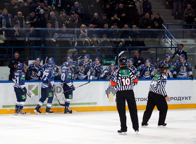 KHL game HC Sibir Novosibirsk vs. Amur Khabarovsk on December 4, 2011. The first goal celebration at the Amur bench.